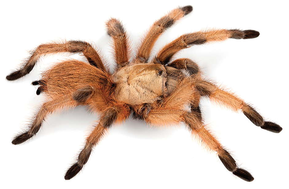 Aphonopelma moderatum female